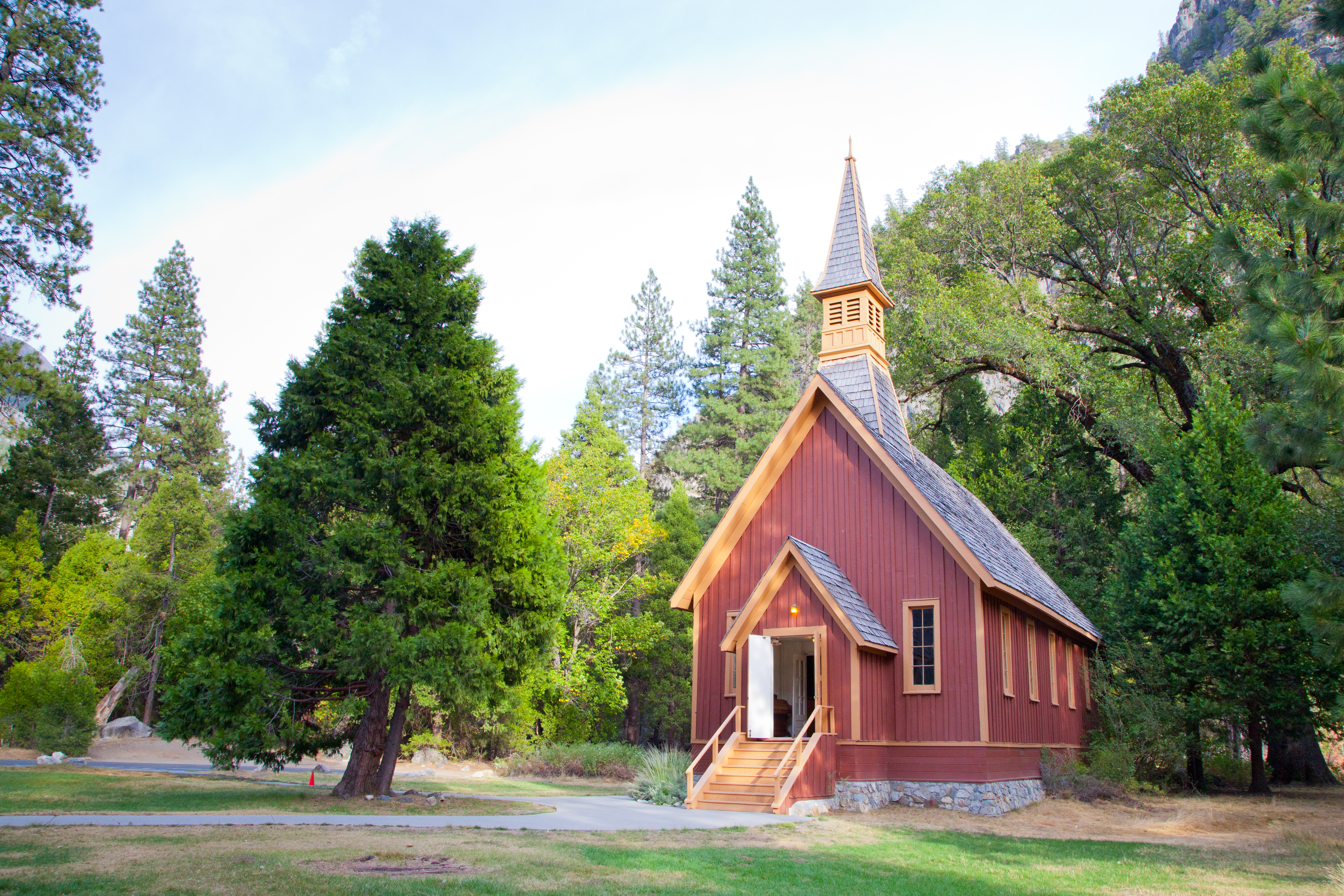 The Yosemite Valley Chapel in Yosemite Valley, California. The 1879 Carpenter Gothic style chapel is the oldest standing structure in Yosemite National Park. A Historic district contributing property on the National Register of Historic Places in Yosemite National Park.